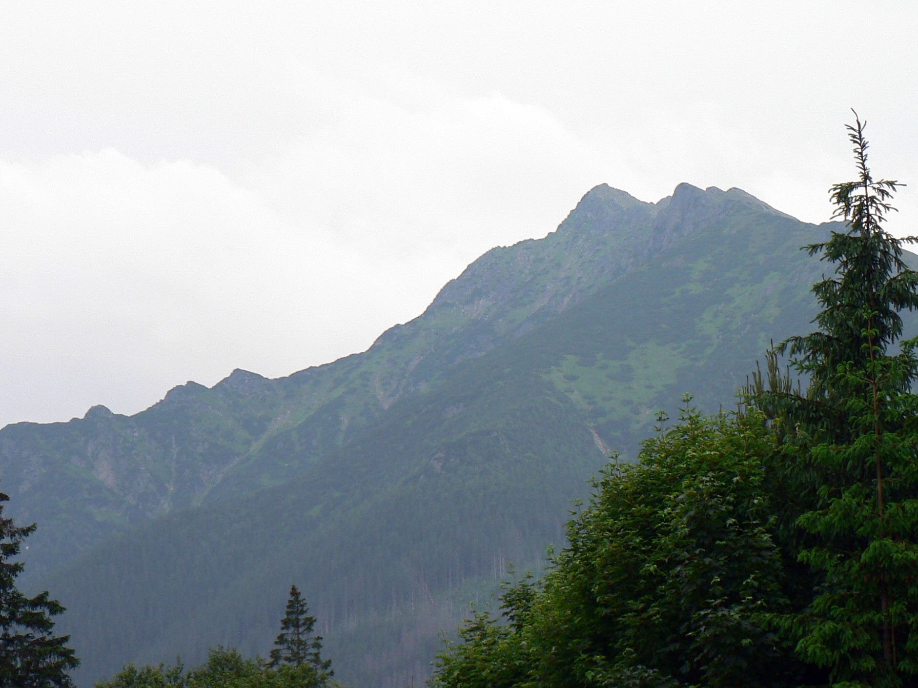 Turnia nad Dziadem from Łysa Polana